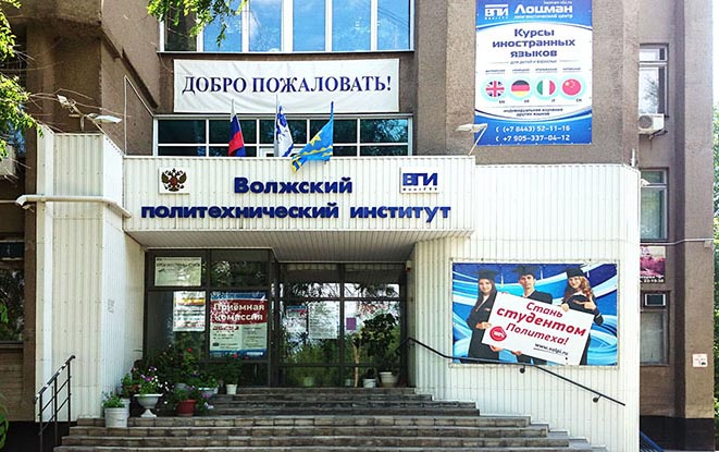 Corpus A VPI branch VSTU